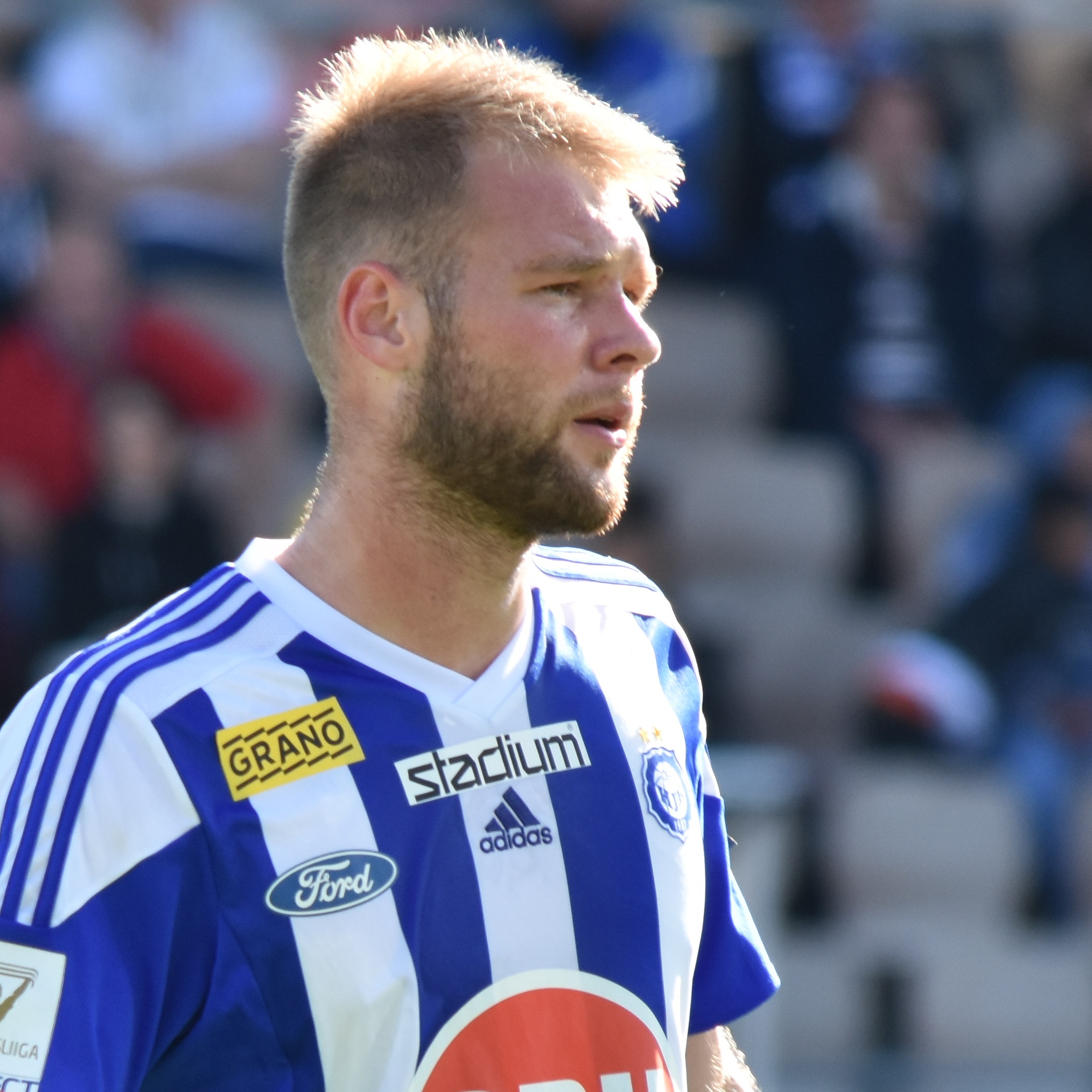 Association football player Klauss (HJK)